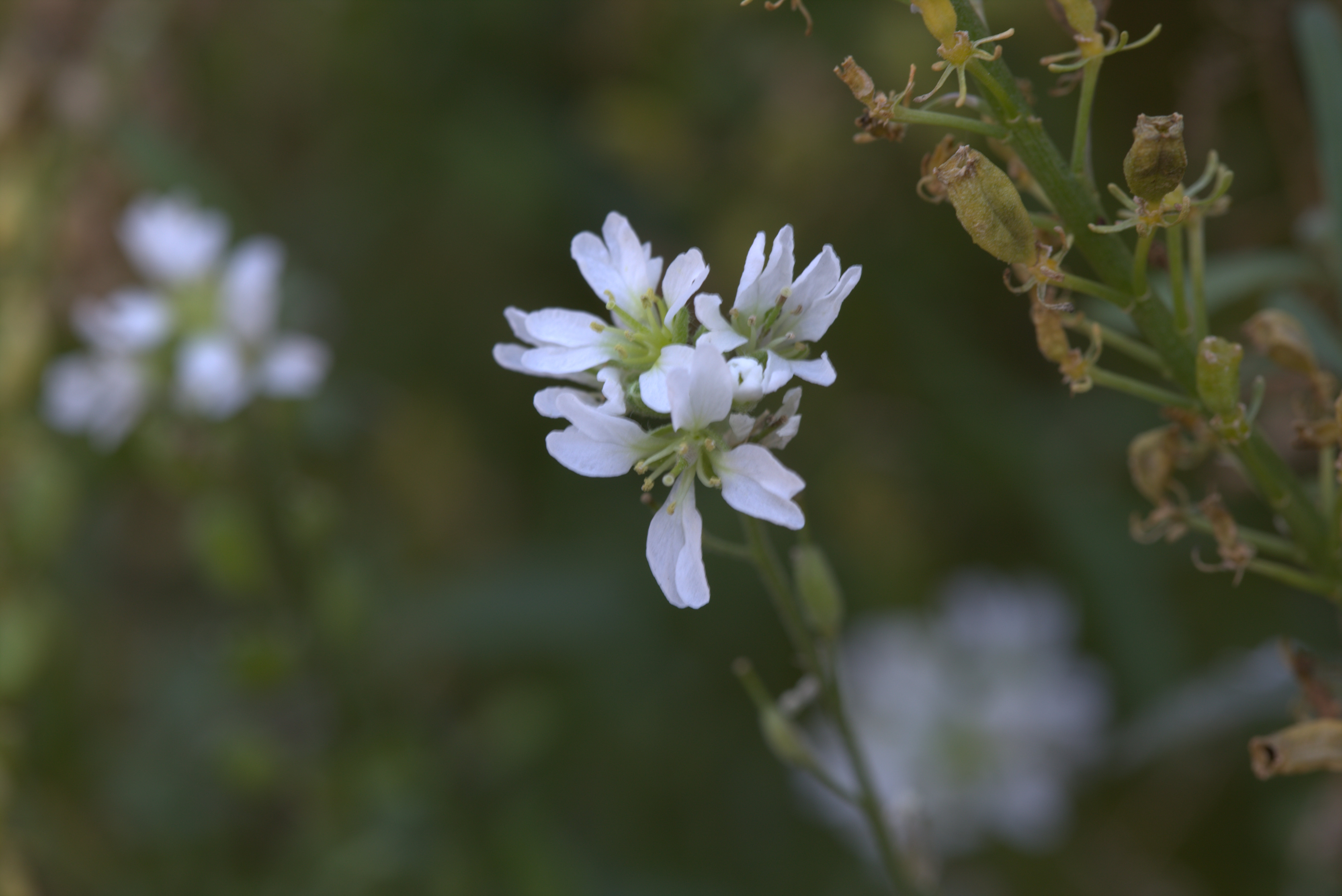 On the right, Reseda lutea in Gothenburg Botanical Garden. Plant id: 2010-1773 p W -- Ferm EF 10-10